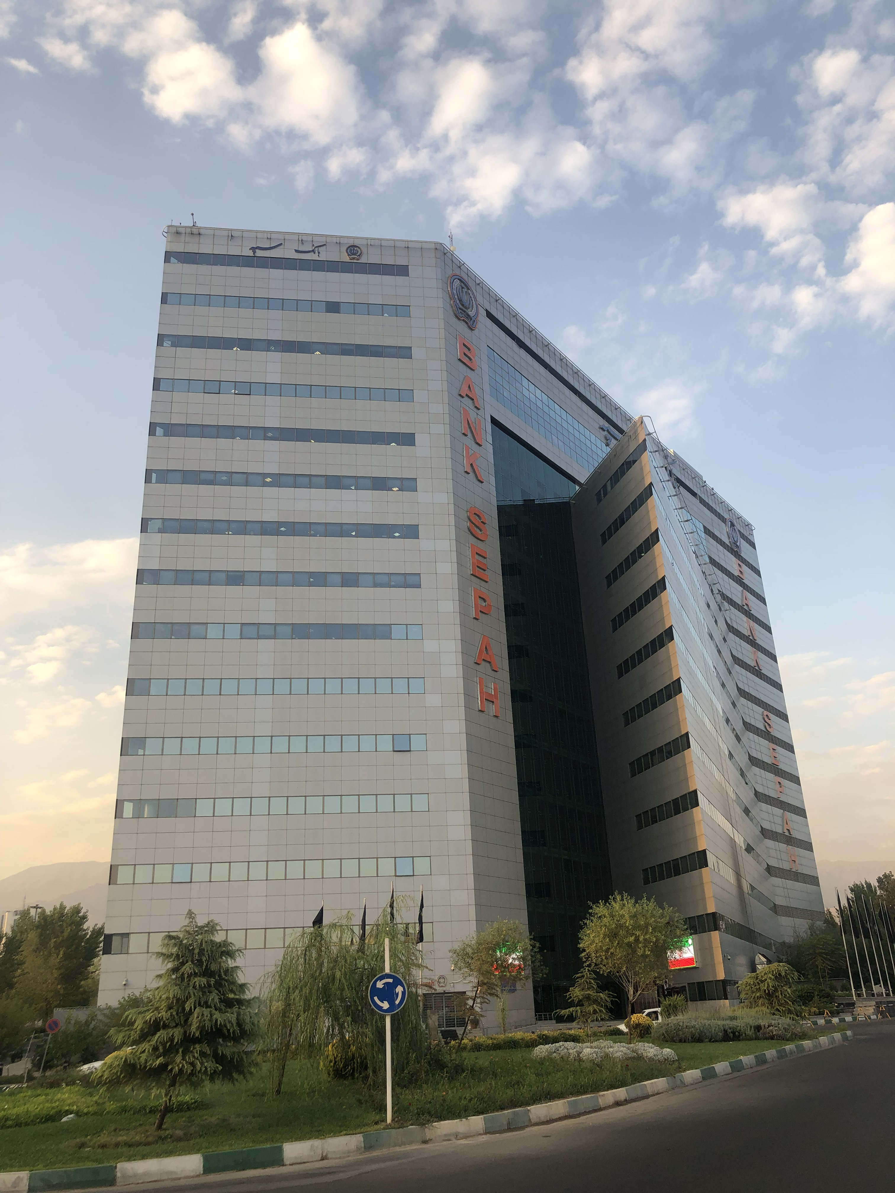 Sepah Bank Central Building